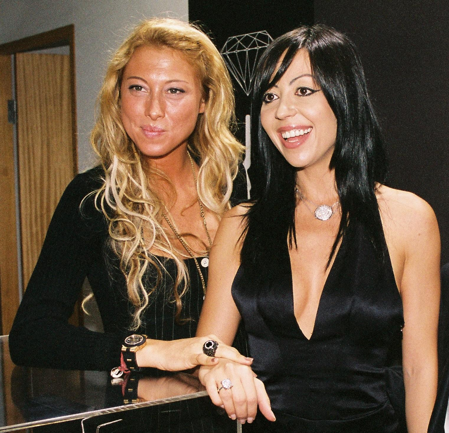 Cristina Möhler and Fátima Lopes at Exponor